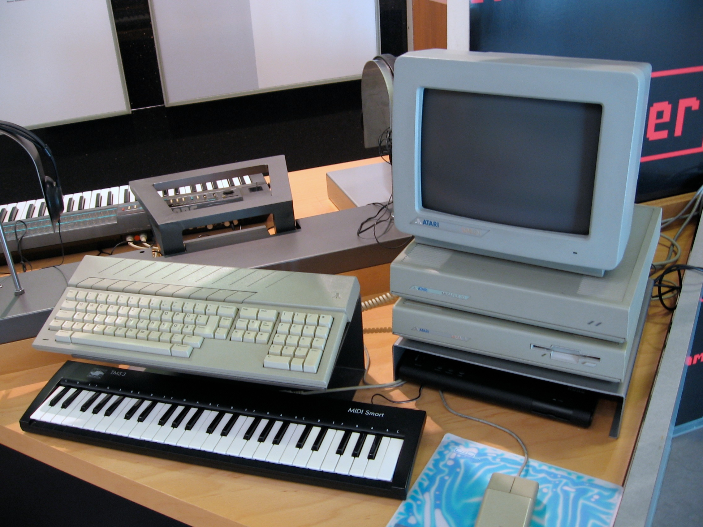 Music sequencer of 1980s Atari ST TerraTec/Profimedia Midi Smart TMS3